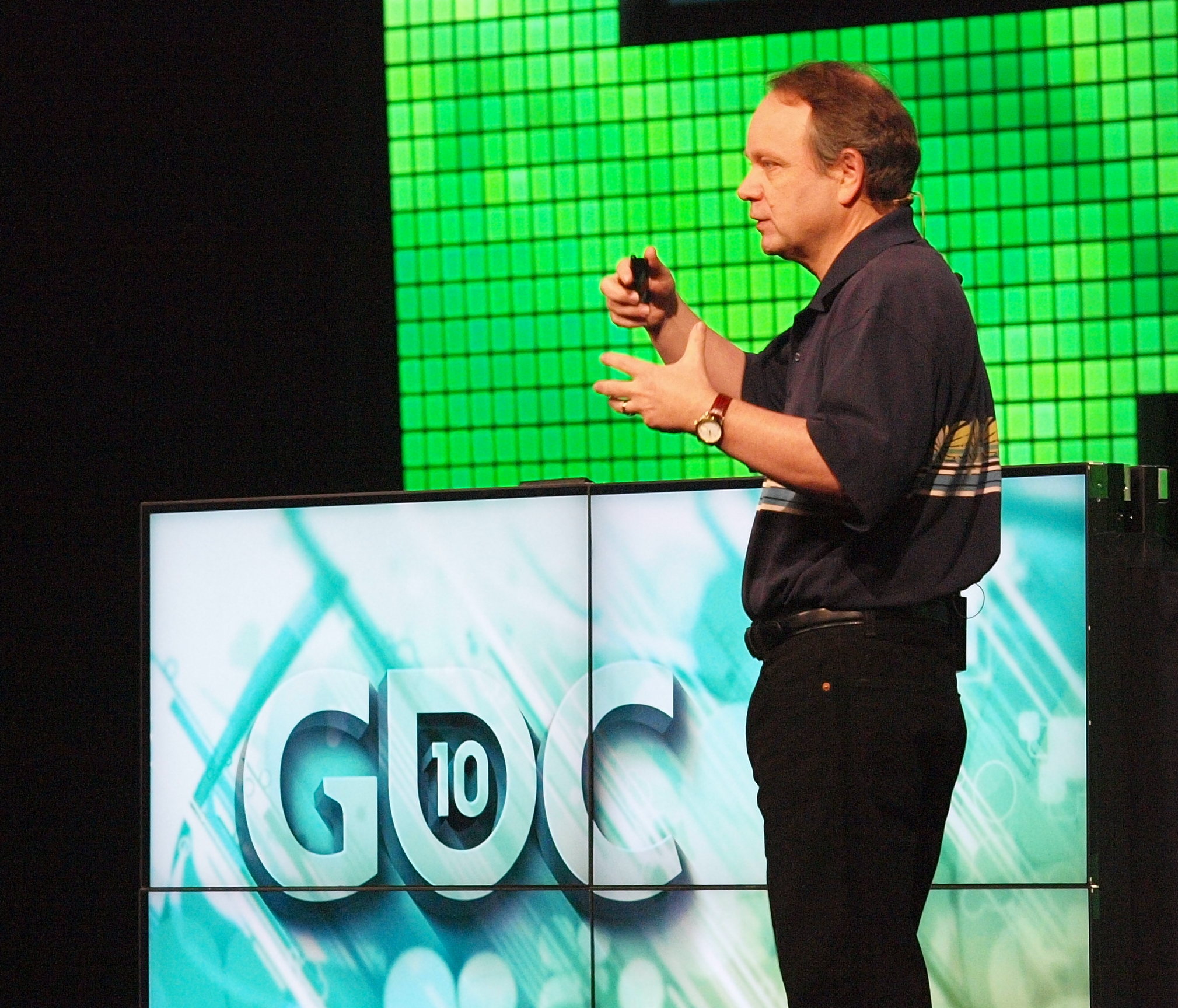 Sid Meier at the Game Developers Conference in 2010 (fourth day).